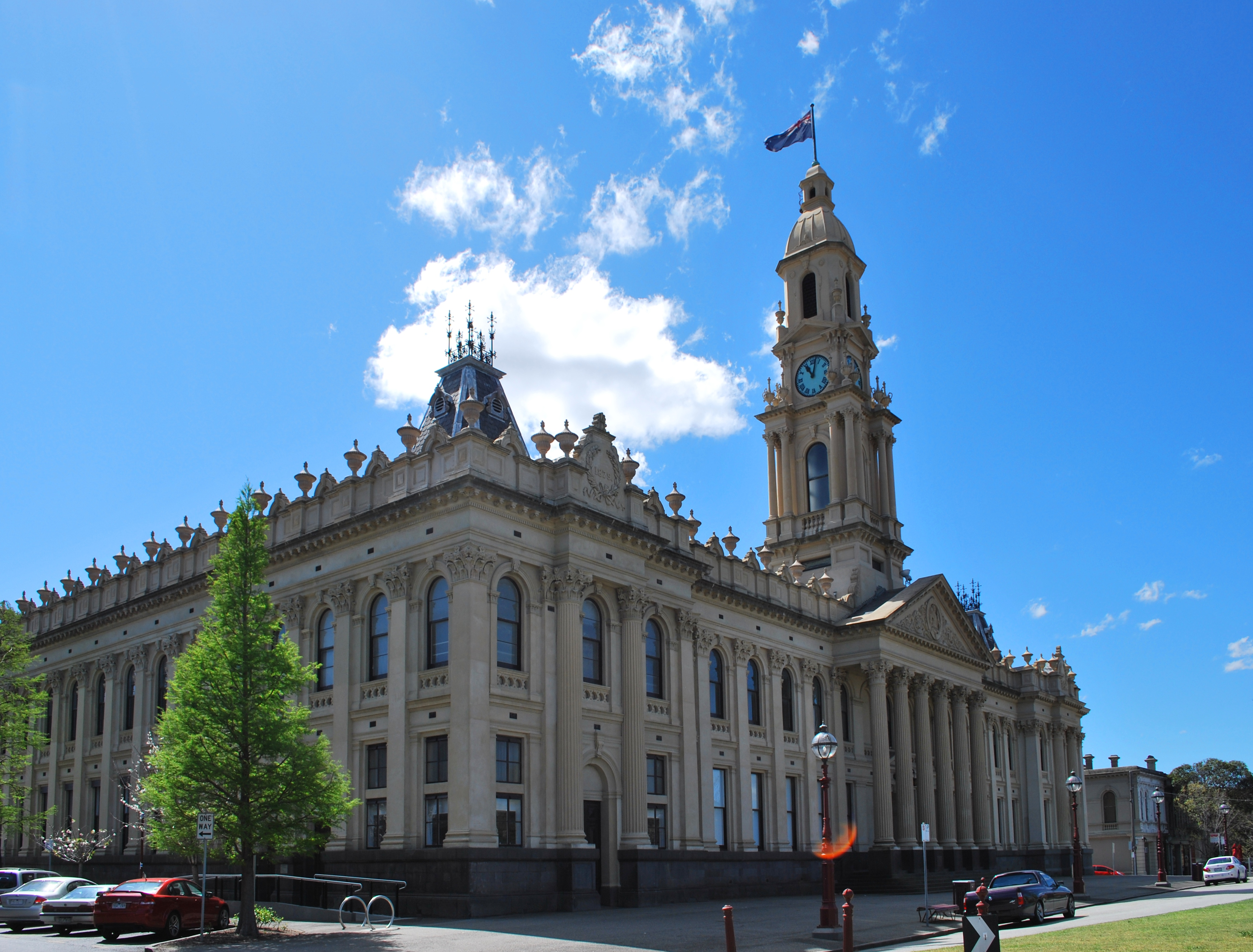 South Melbourne Town Hall